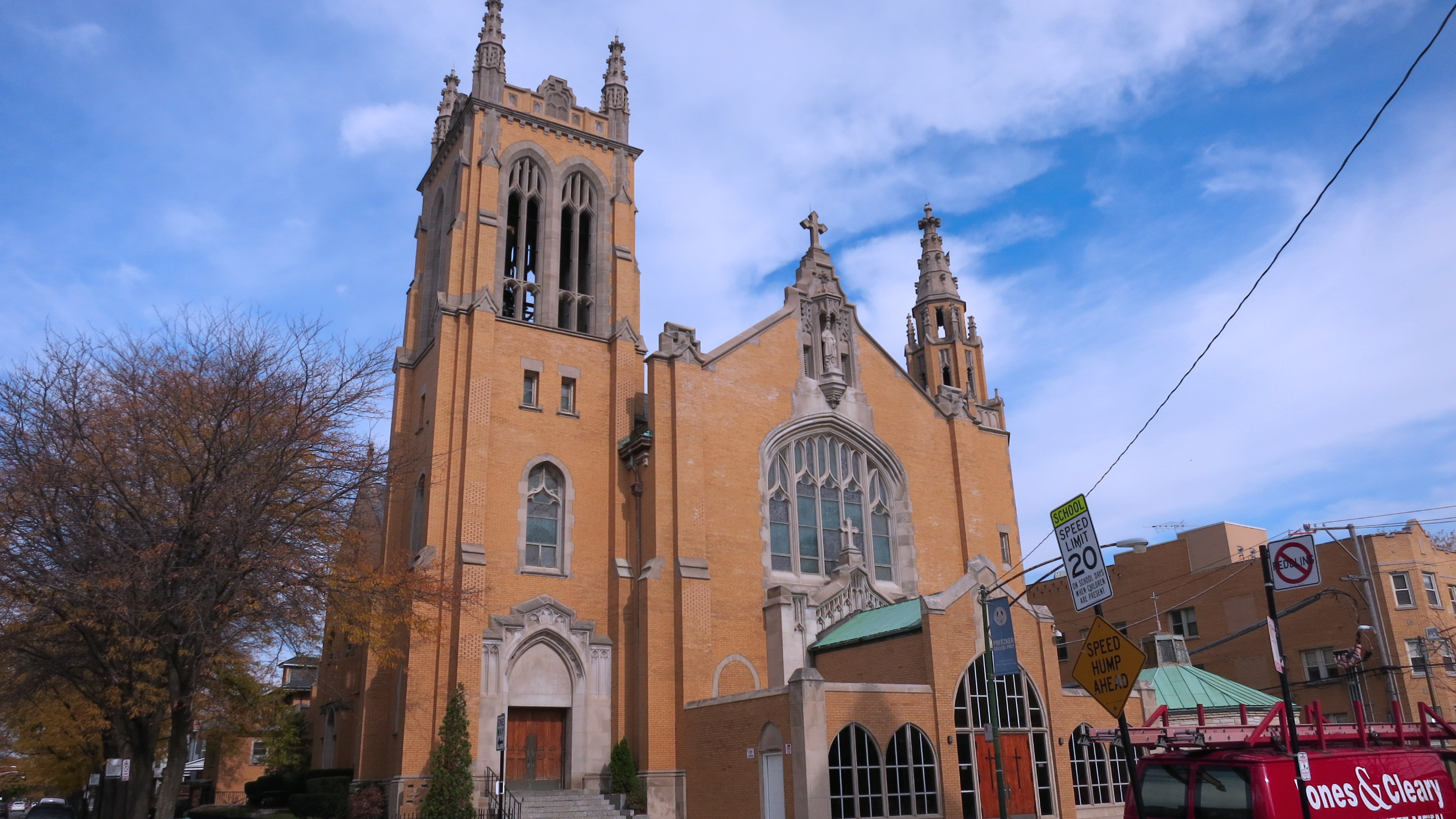 One of the most notable structures in Hermosa, Chicago is the St. Philomena Catholic Church, which is located on Cortland and Kedvale.